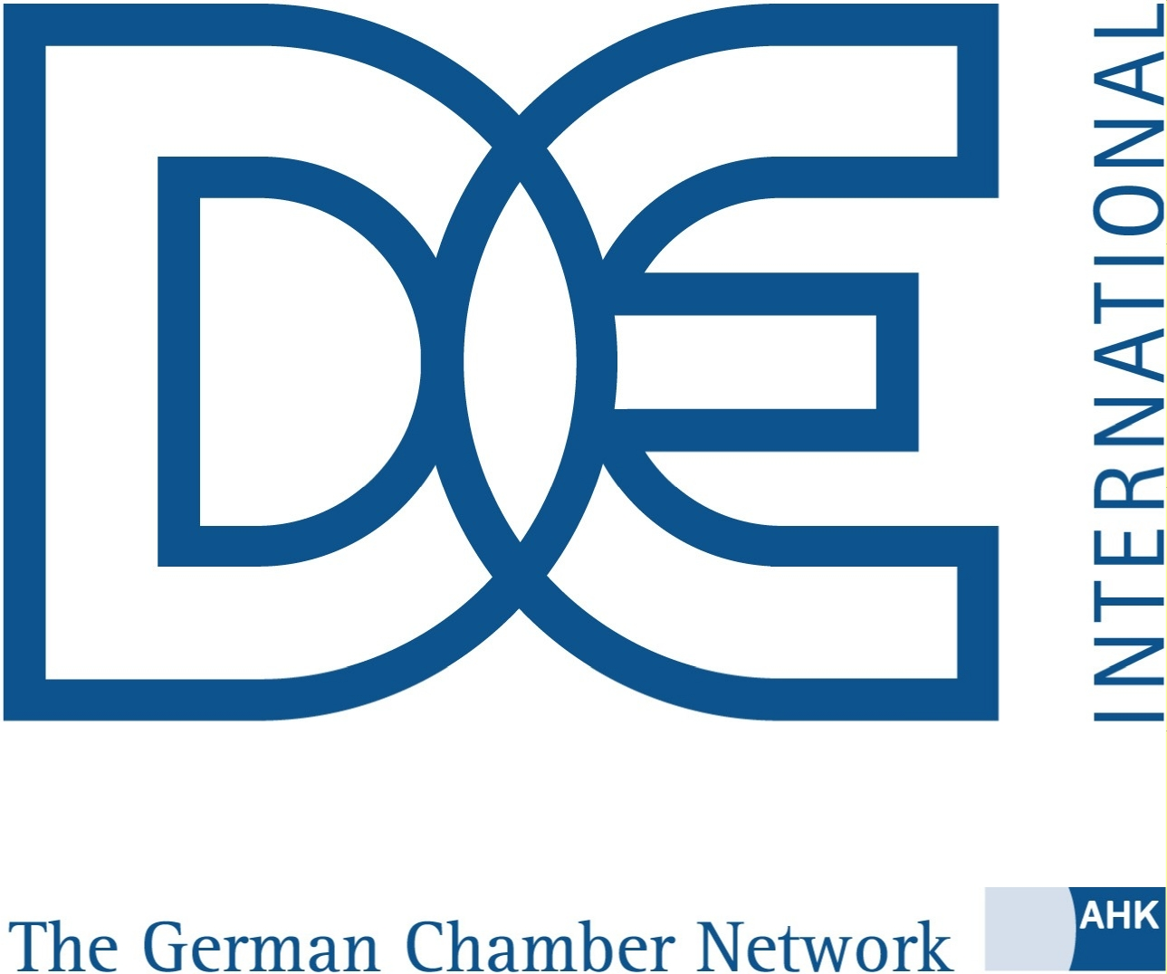 Logo of DEinternational, Service Brand of The German Chamber Network